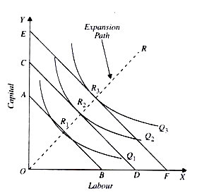 Labour Capital